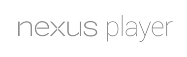 Nexus Player logo.